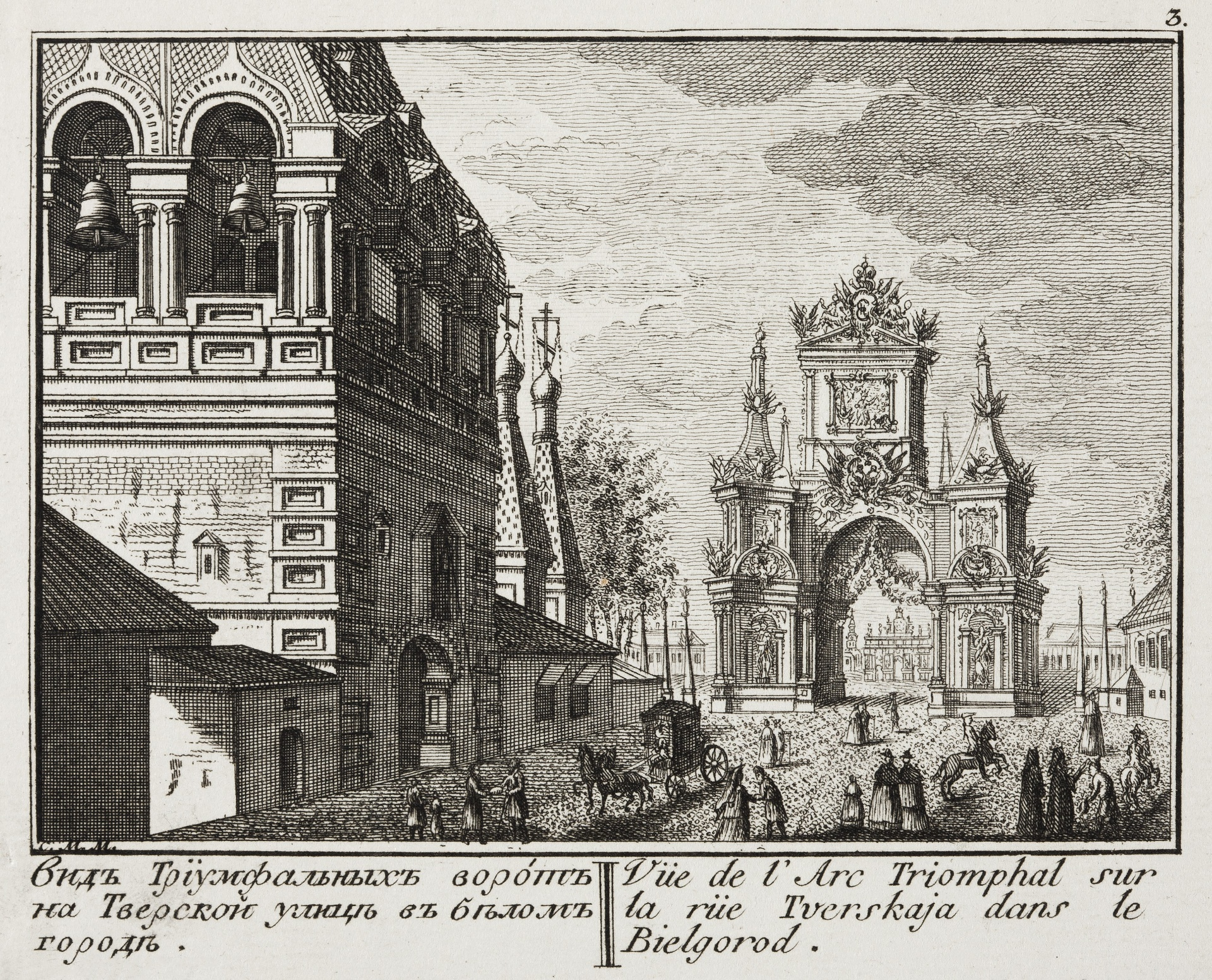 Church of Demetry of Solun and triumphal gate of Catherine the Great in Tversky Vorota Square, Moscow